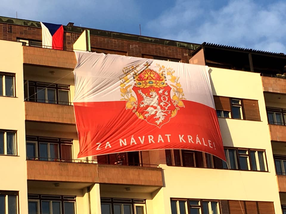 Large monarchist flag on a building during Letná 2 demonstration, with the coat of arms of the Kingdom of Bohemia and caption "Za návrat krále" ("For the Return of the King")